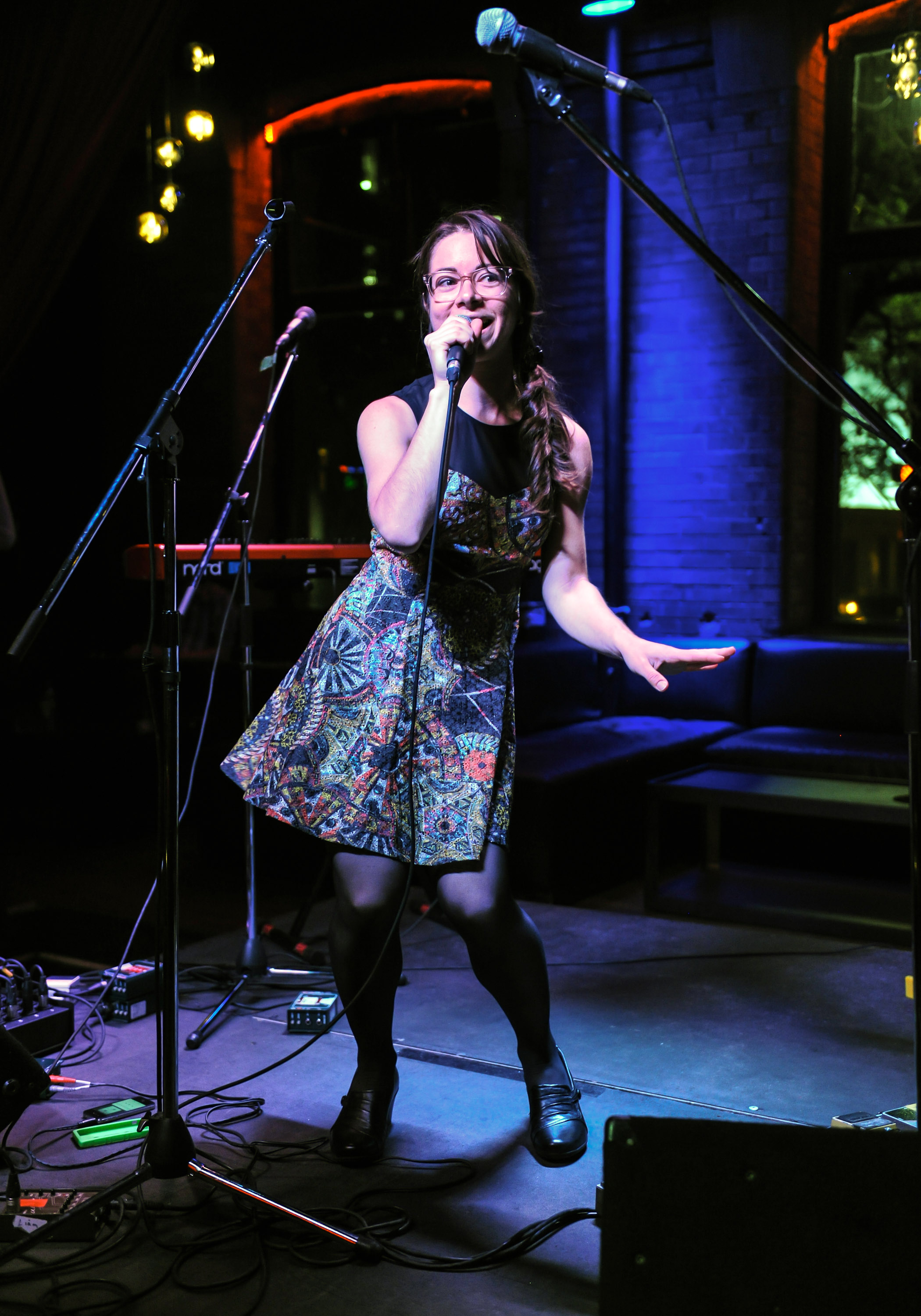 Canadian singer-songwriter and 2014 Slaight Music resident Laura Barrett. Photo: Sam Santos/George Pimentel Photography.